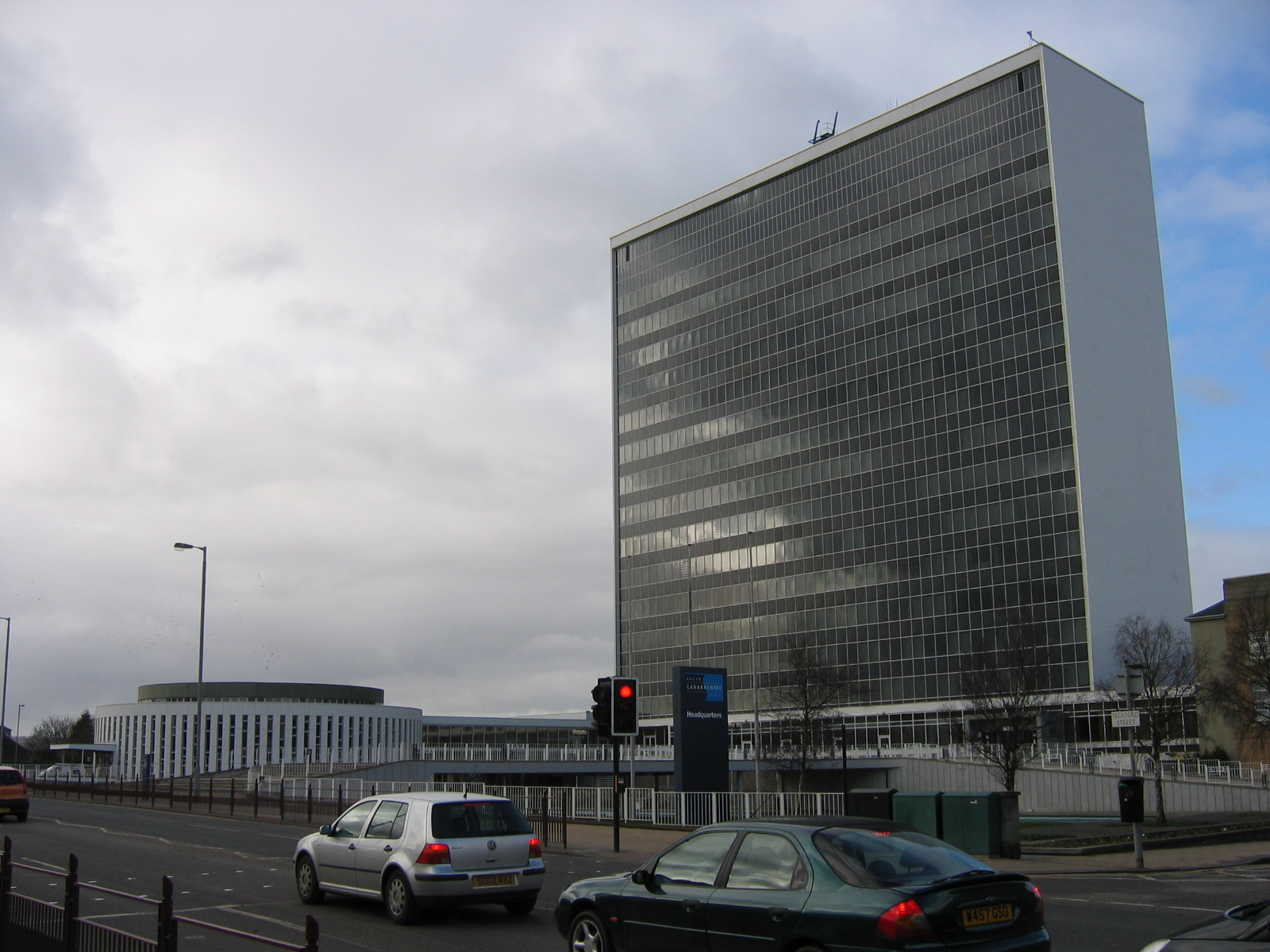 South Lanarkshire Council Headquarters building, on Almada Street, Hamilton, Scotland. Taken by Supergolden.